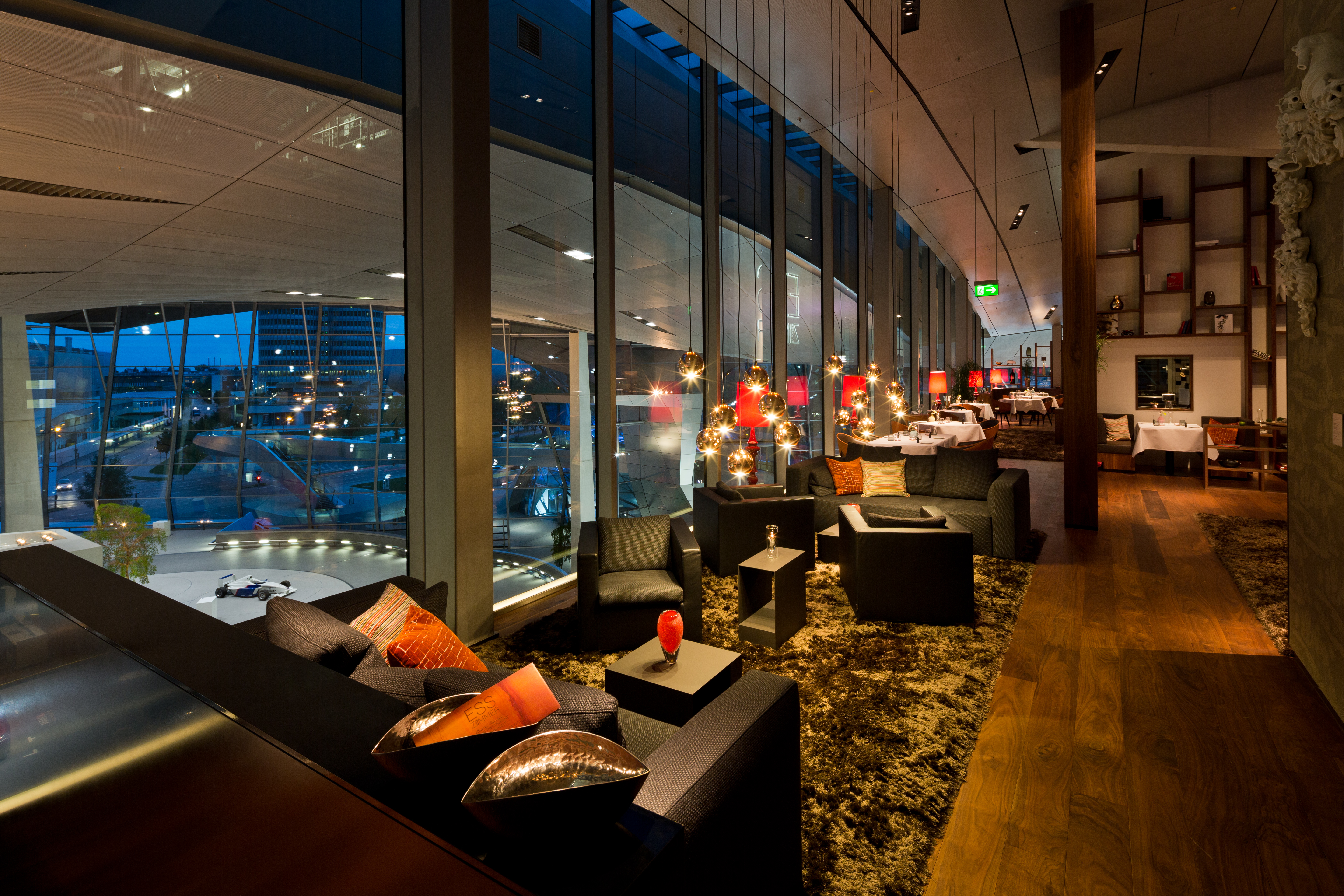 EssZimmer in der BMW Welt by Käfer, München, 8.9.2013, Foto: Thorsten Jochim